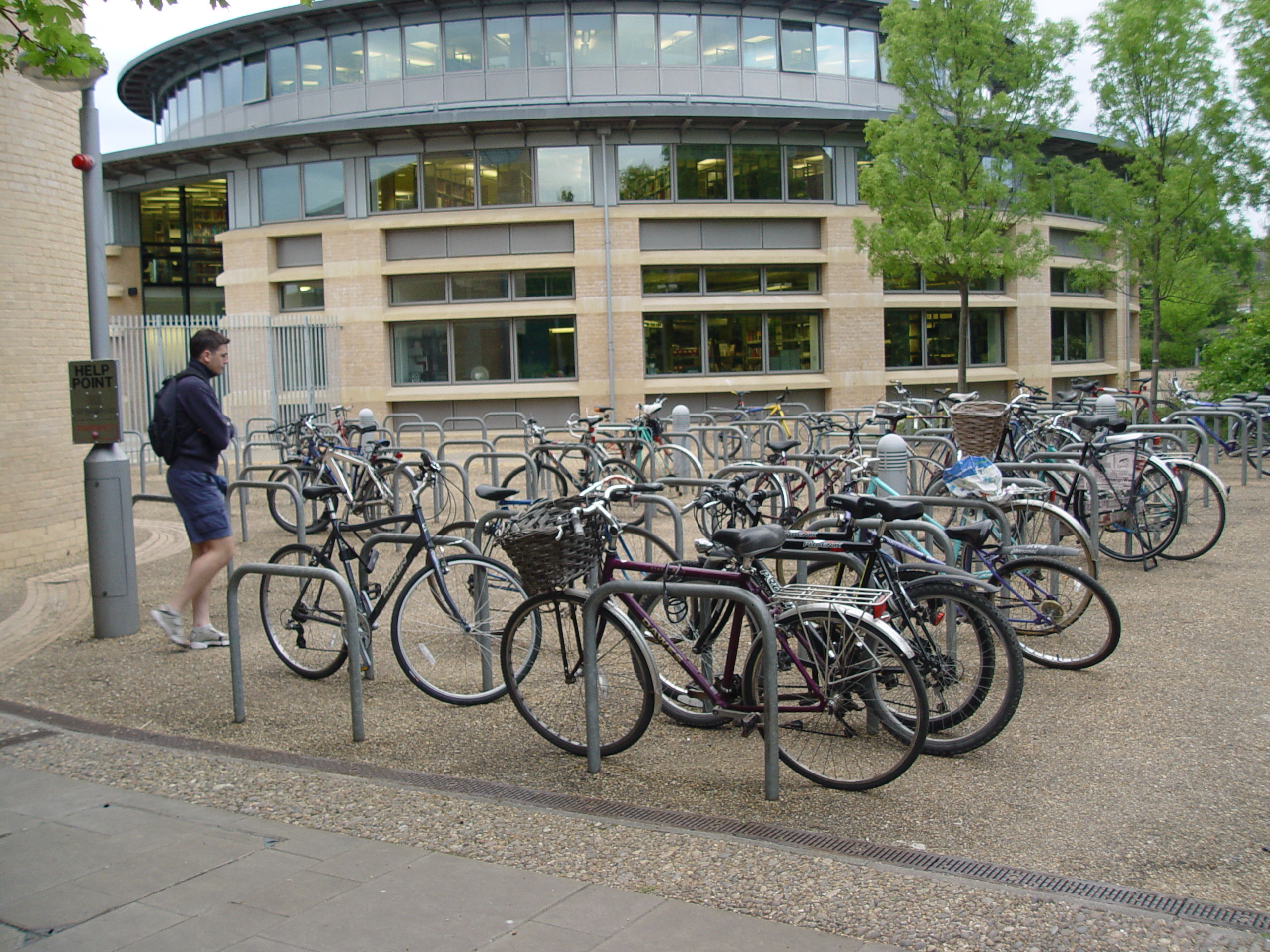 Centre for Mathematical Sciences, around 80 bicycle racks, Cambridge, UK.